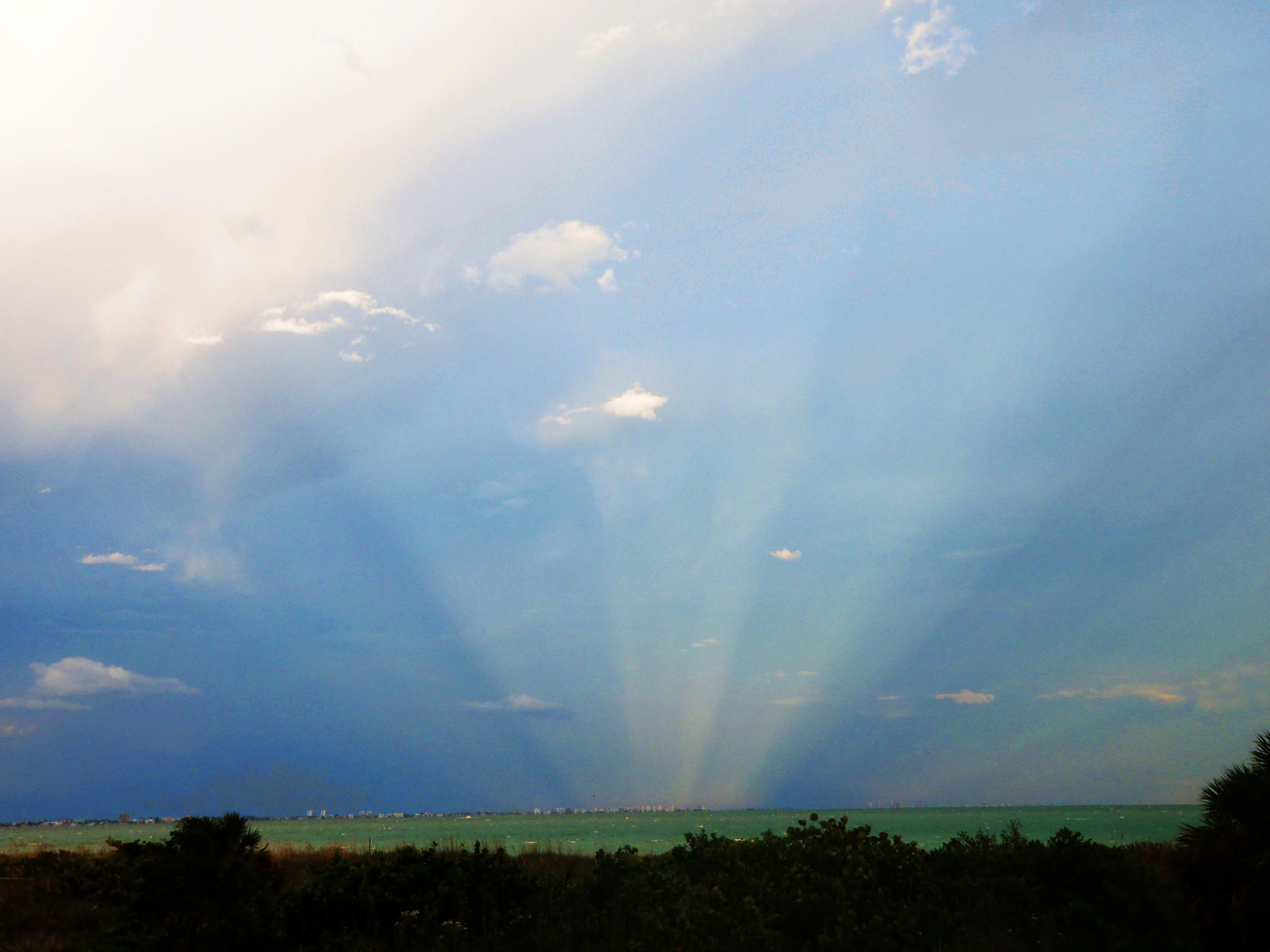 Anticrepuscular rays - Florida Gulf coast - the sun is low in the sky directly behind the photographer's back, about an hour before sunset